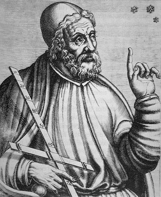 An early modern period engraving depicting the 2nd century philosopher Claudius Ptolemaeus, anachronistically shown bearing a cross-staff.